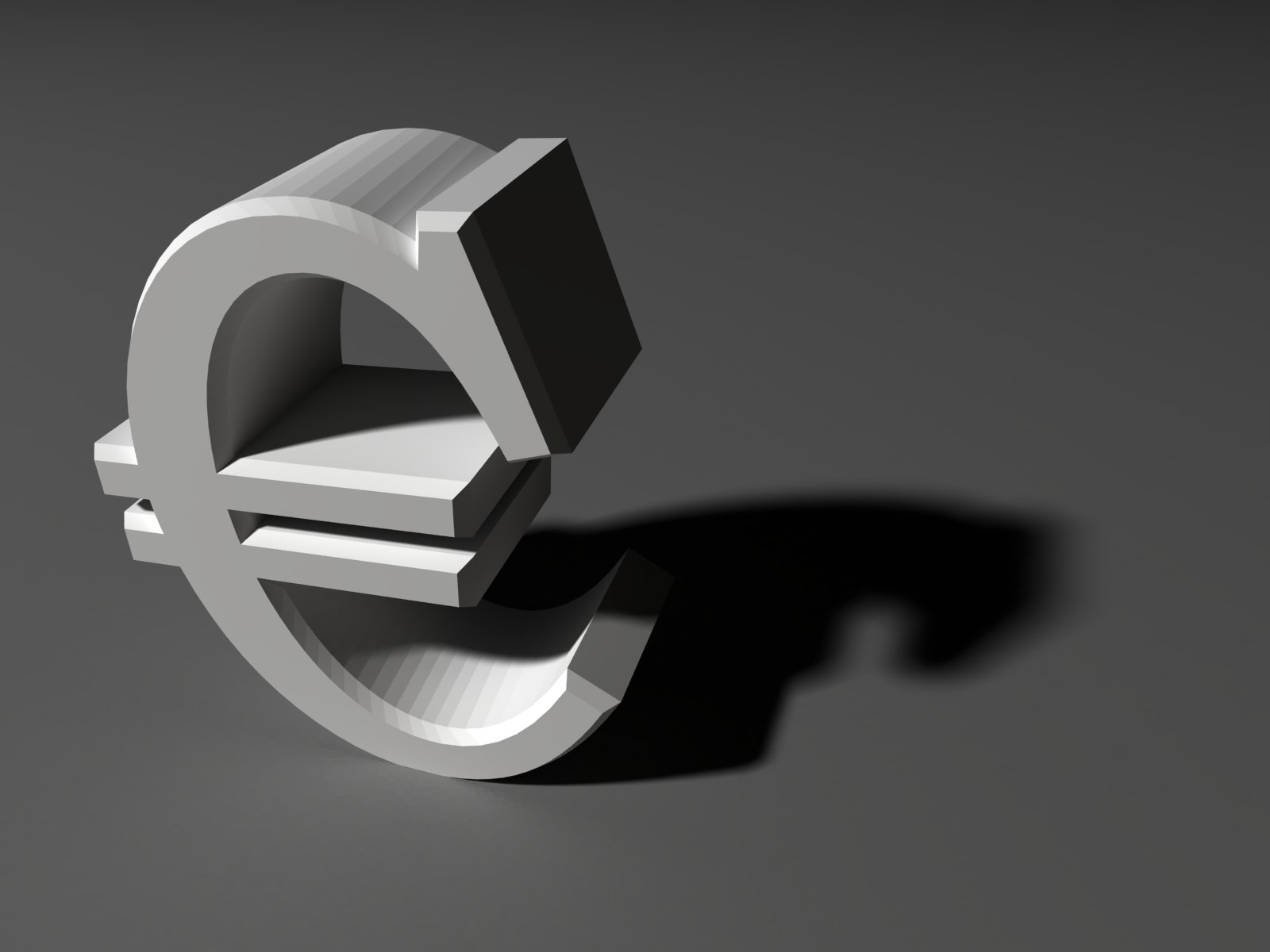 3d render of euro symbol with shadow